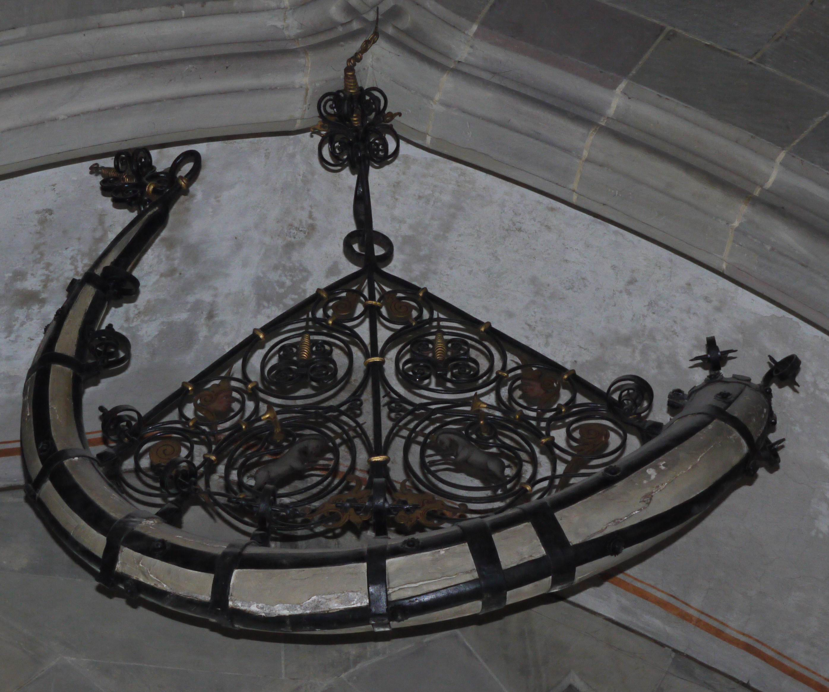 tusk of mammoth in a church in Schwäbisch Hall